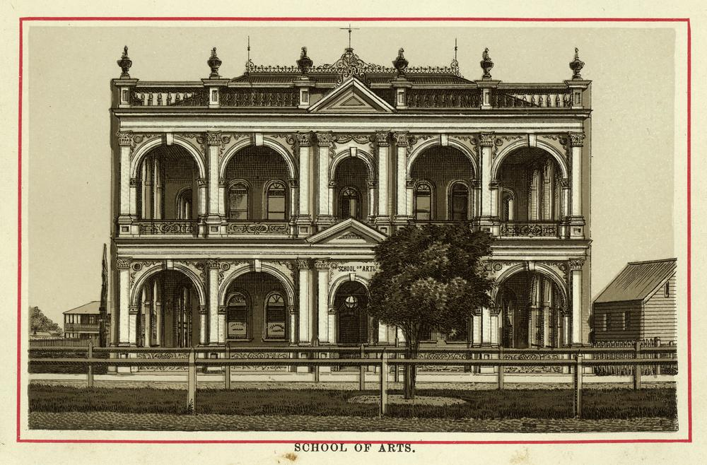 School of Arts, Bundaberg, ca. 1894. Bundaberg is situated at the southern tip of the Great Barrier Reef. Four hours drive north from Brisbane, Bundaberg is located in the heart of a rich sugar and horticultural belt. Bundaberg is identified with the locally manufactured Austoft Cane harvesters and famous Bundaberg Rum.